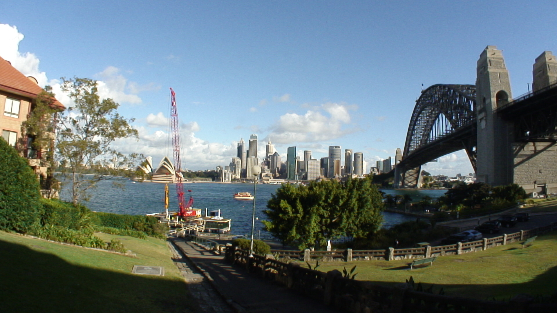 Photograph from Jeffrey Street Kirribilli of the harbour, opera house and harbour bridge